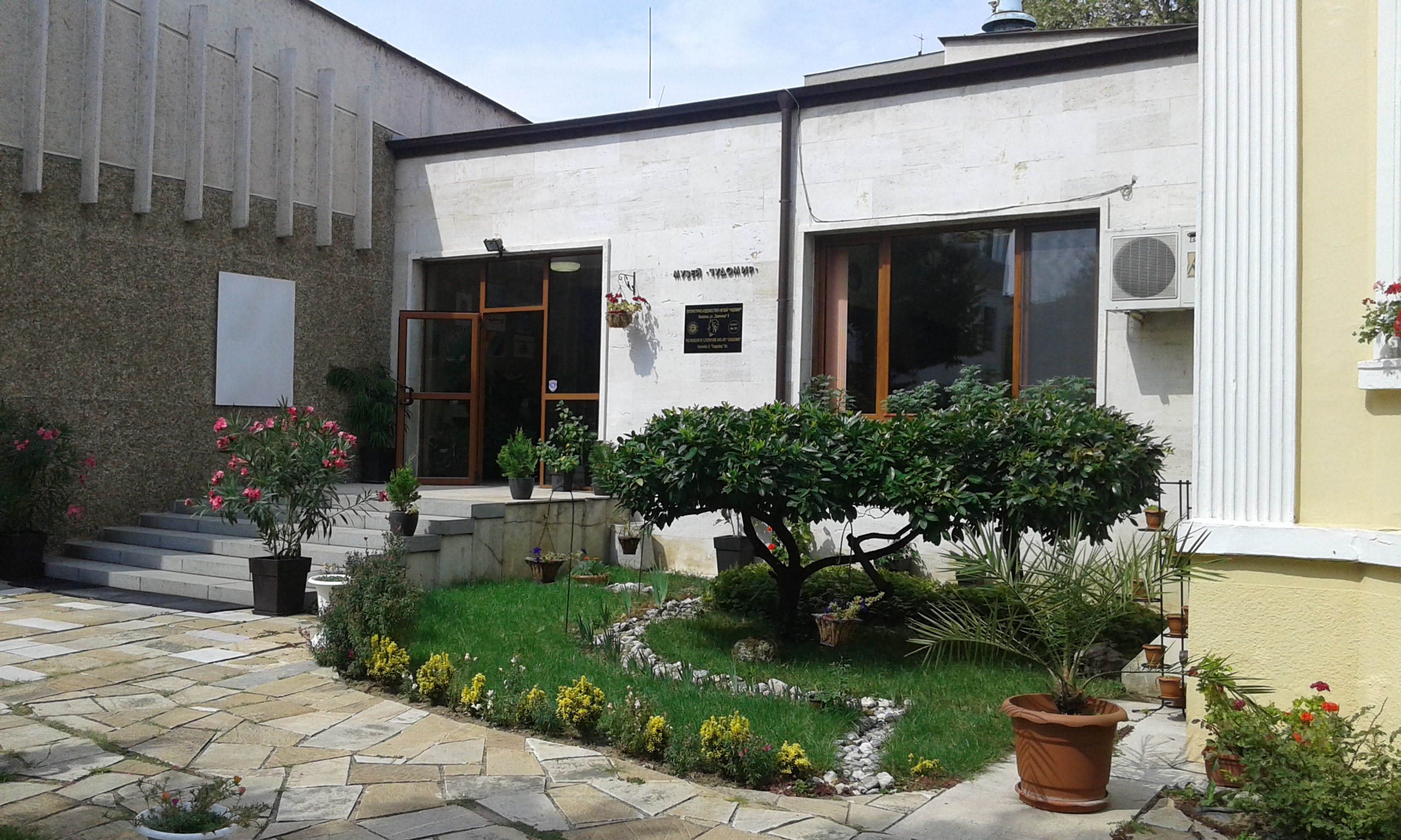 House-museum of Chudomir (Dimitar Chorbadzhiyski) in Kazanlak